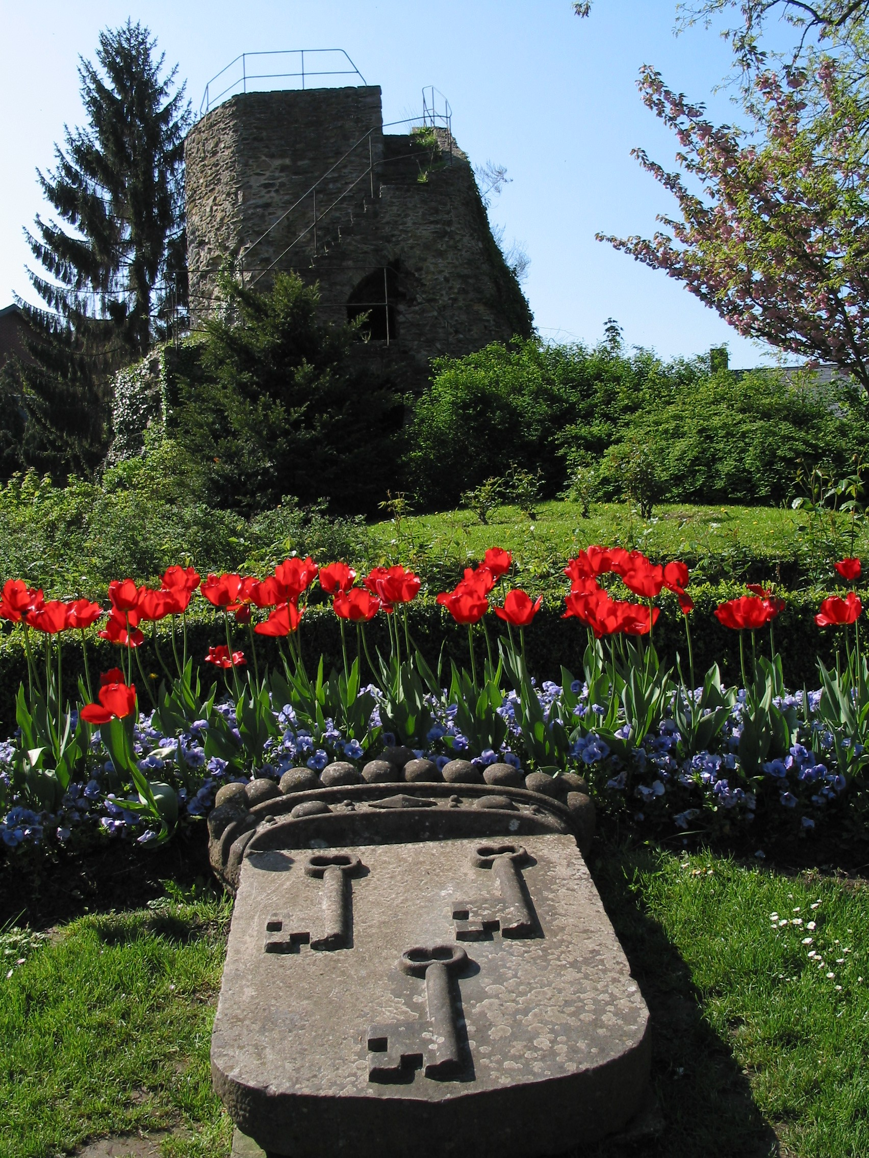 Gembloux (Belgium), the coats of arms of the city.